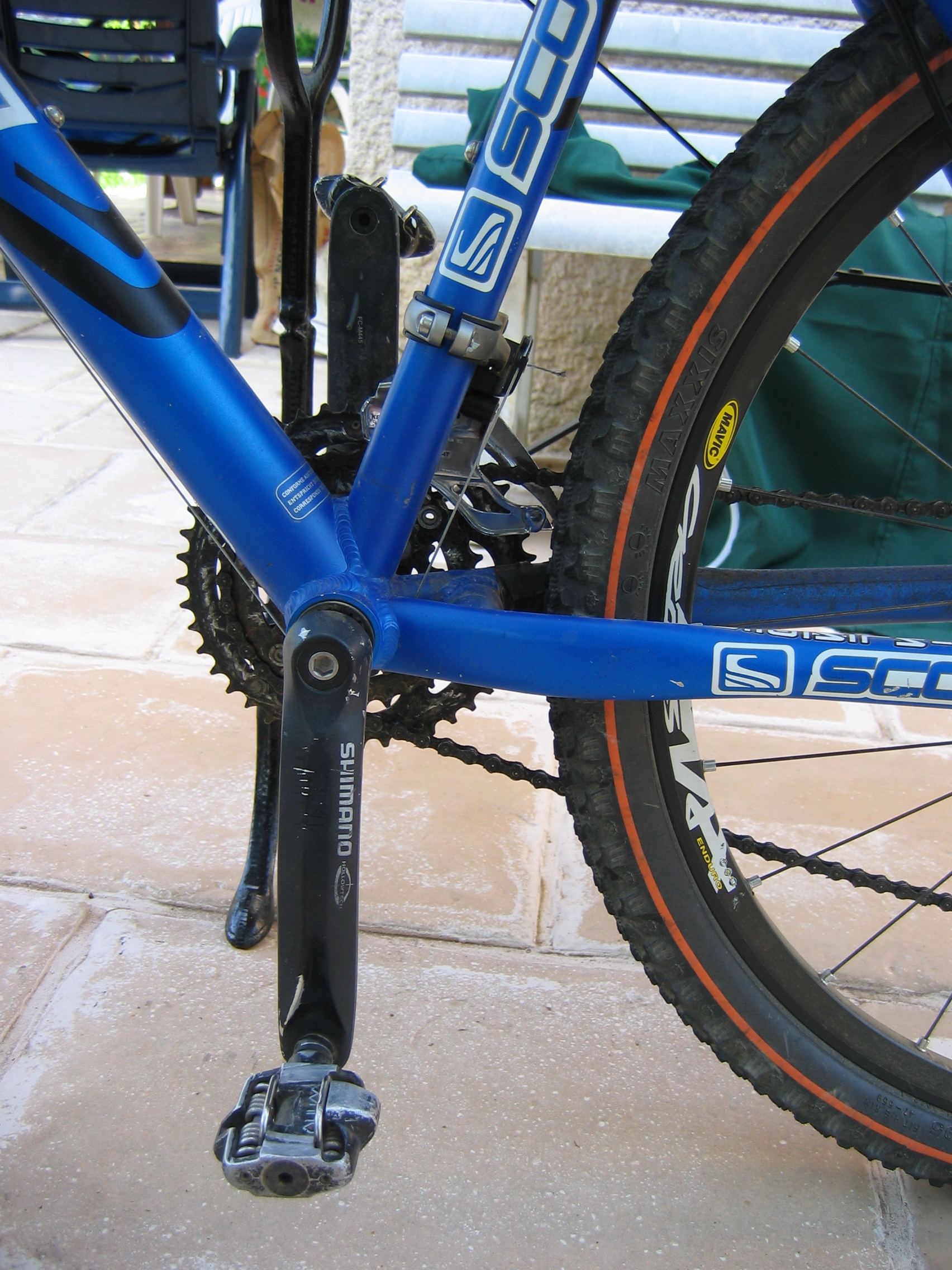 Detail of the pedals